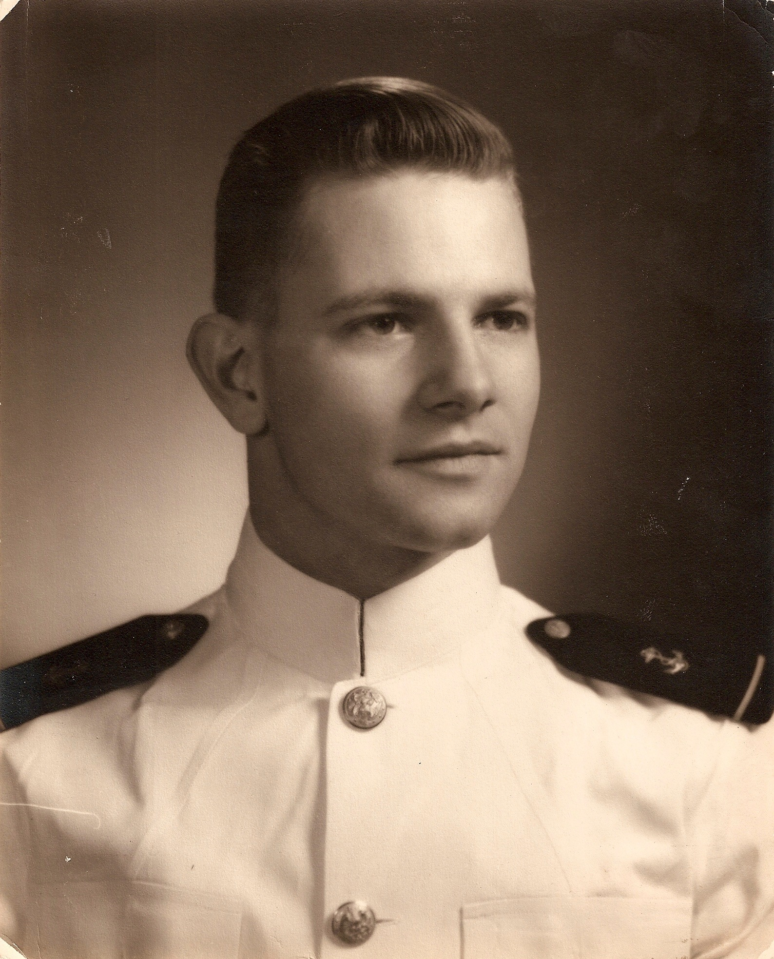 MIDN 1/C Henry C. Mustin